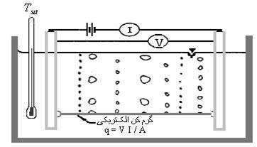 سیله آزمایش نوکیاما